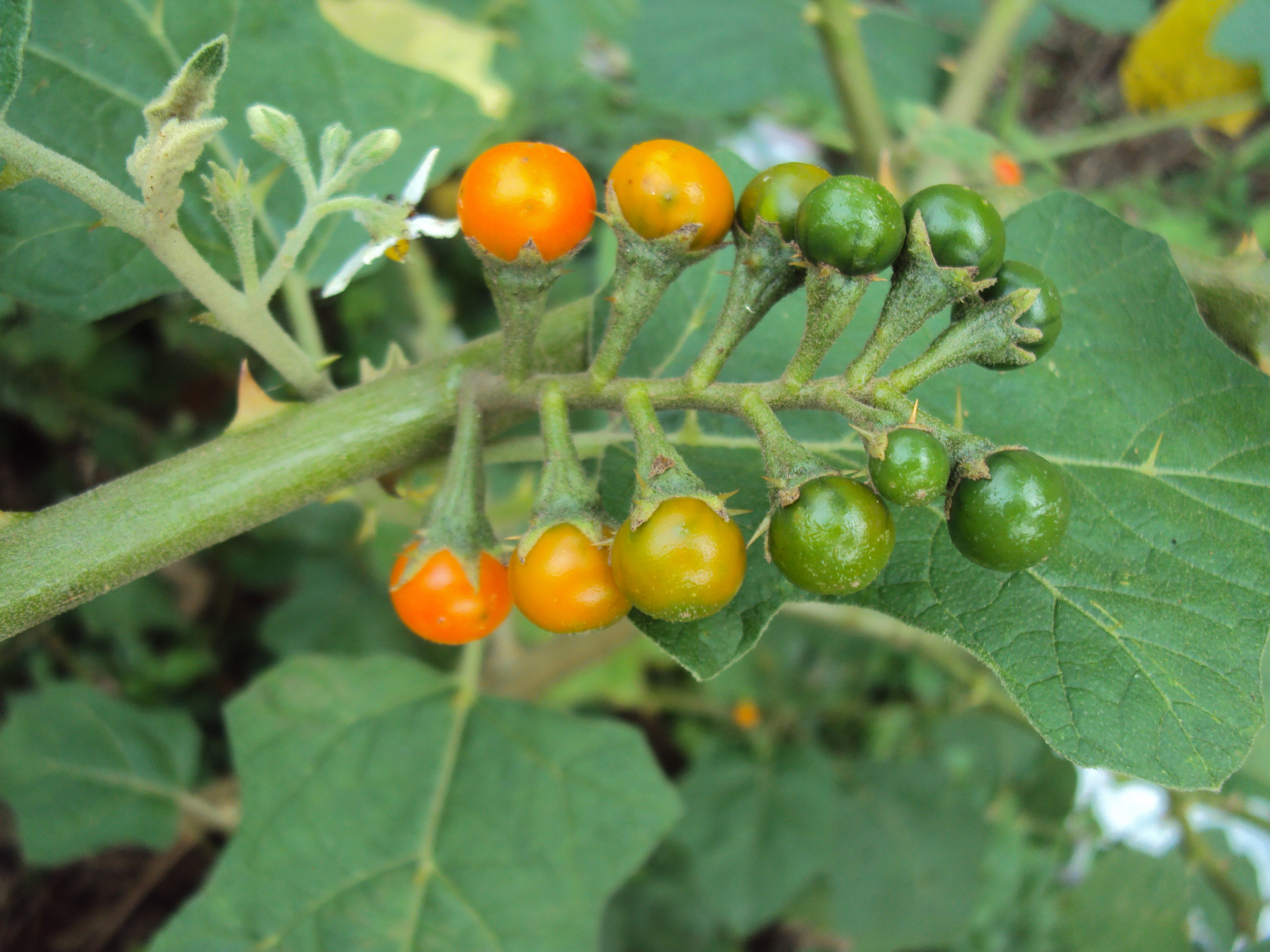 Solanum violaceum